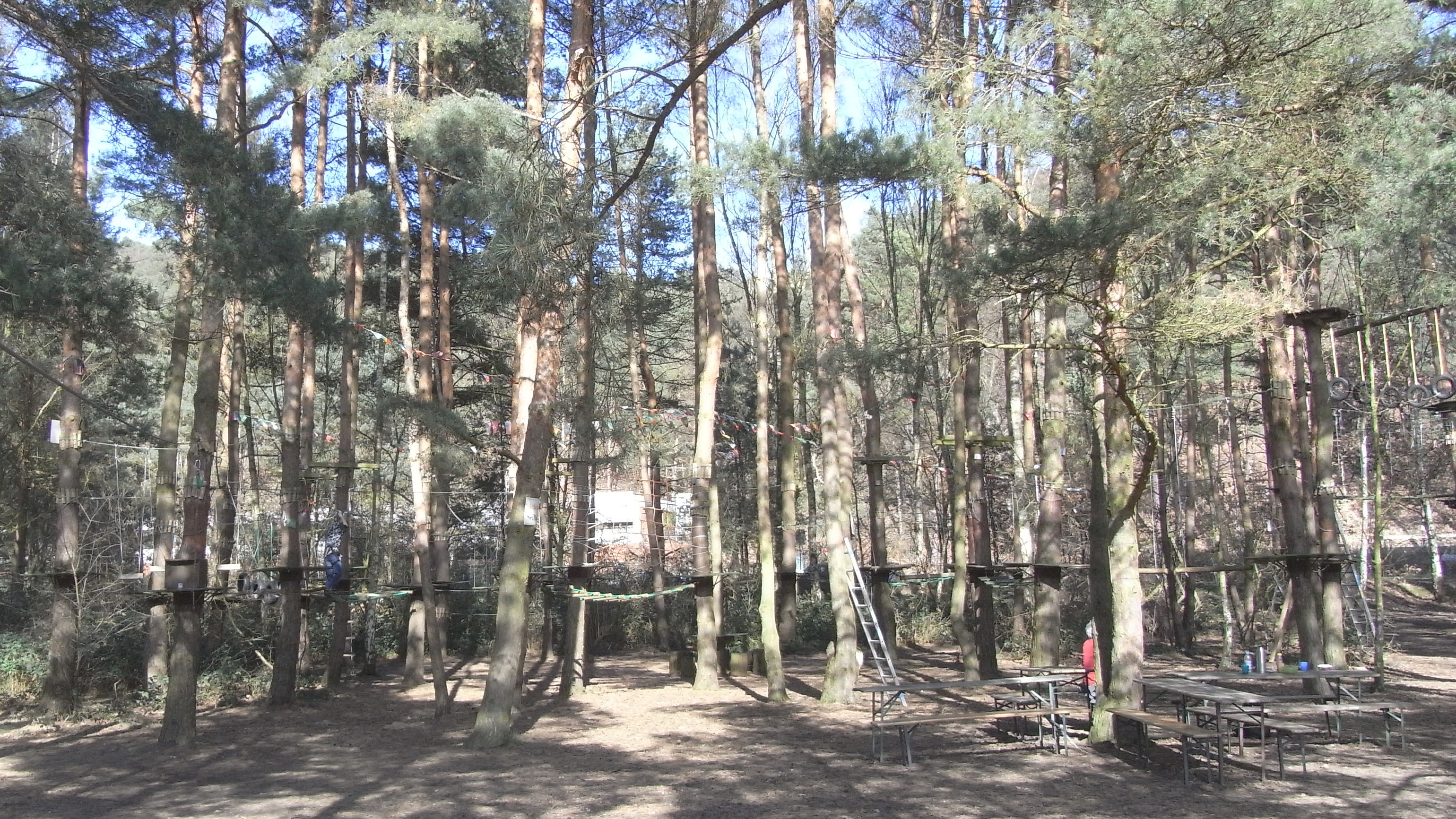 Ropes course in Geeshacht, Schleswig-Holstein, Germany.